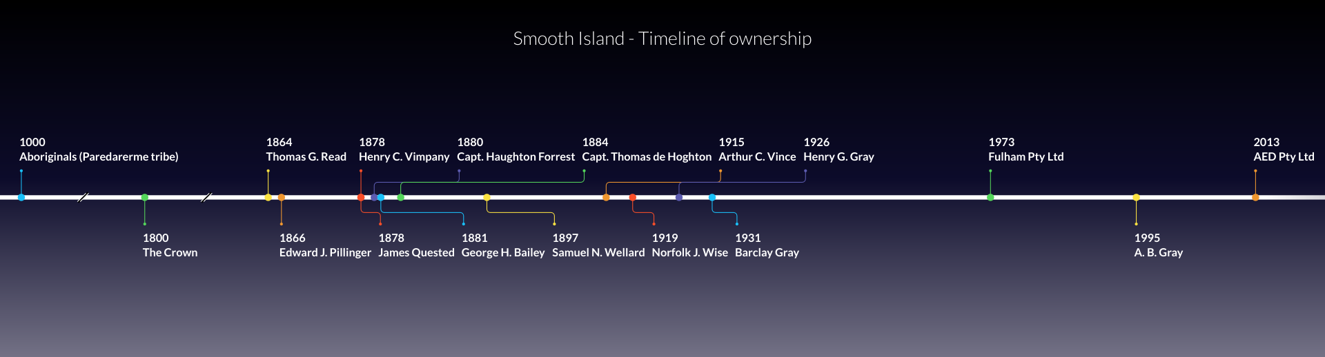 The timeline of ownership of Smooth Island